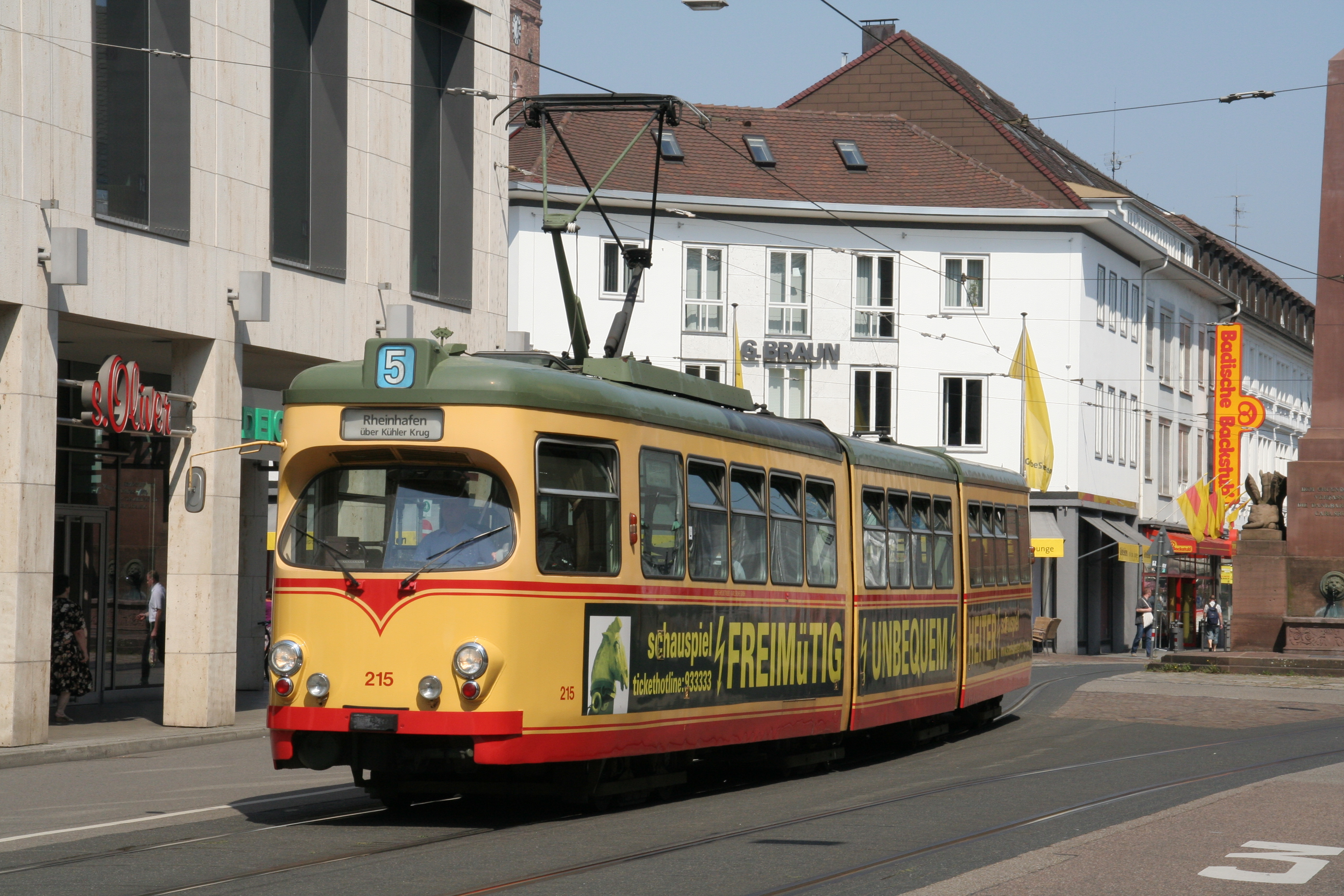 VBK tram in Friedrichtstrasse, Karlsruhe